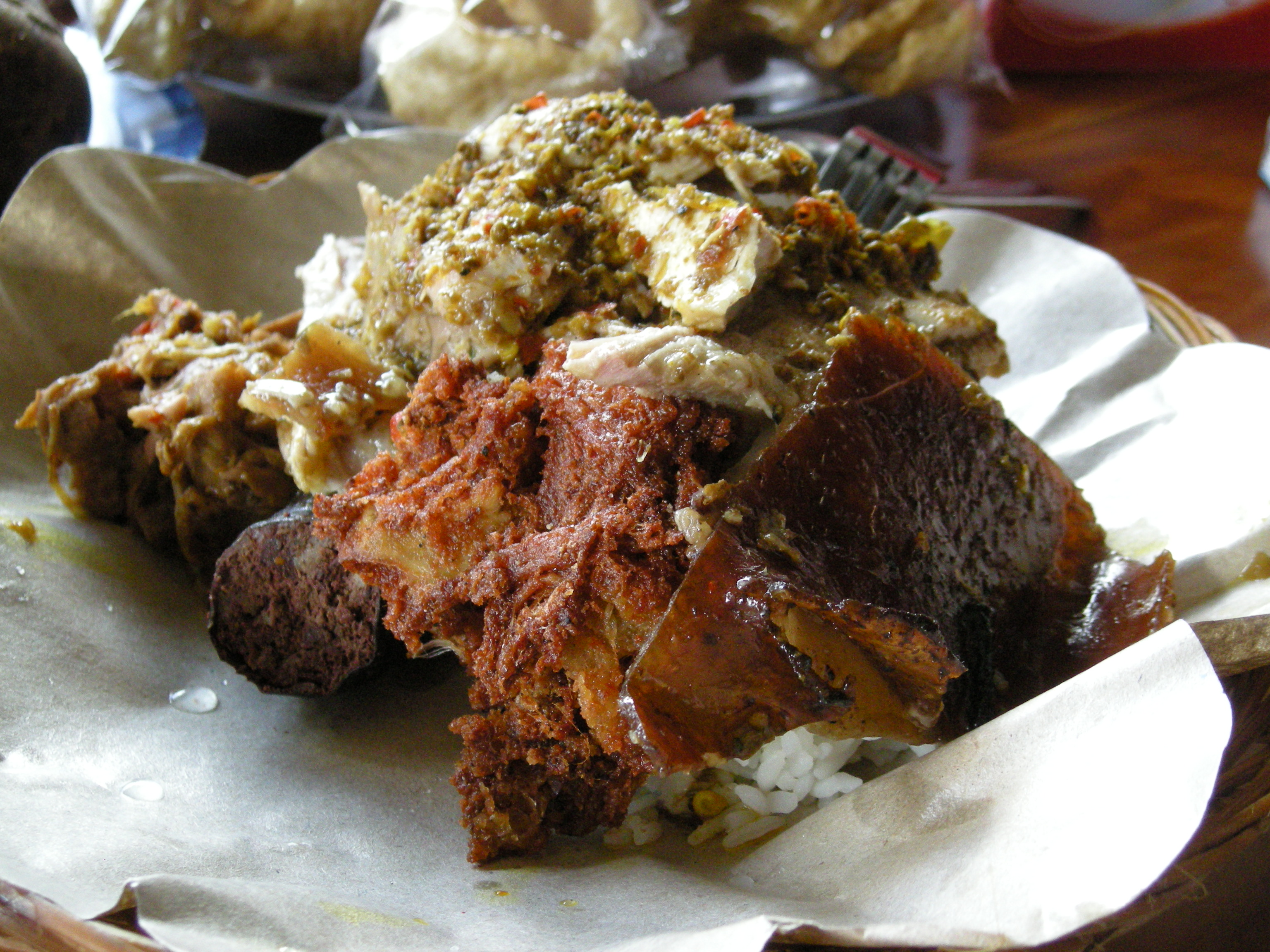 suckling pig roasted pork